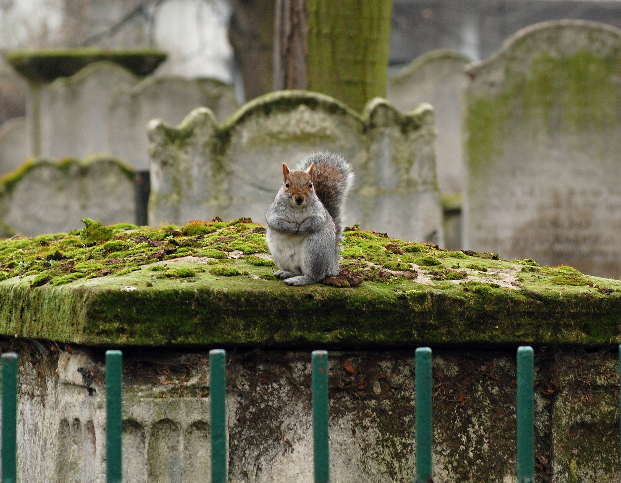 Bunhill Fields, Islington. Grey Squirrel - Judy keeps telling me how cute these creatures are. Posted for Guess Where London.